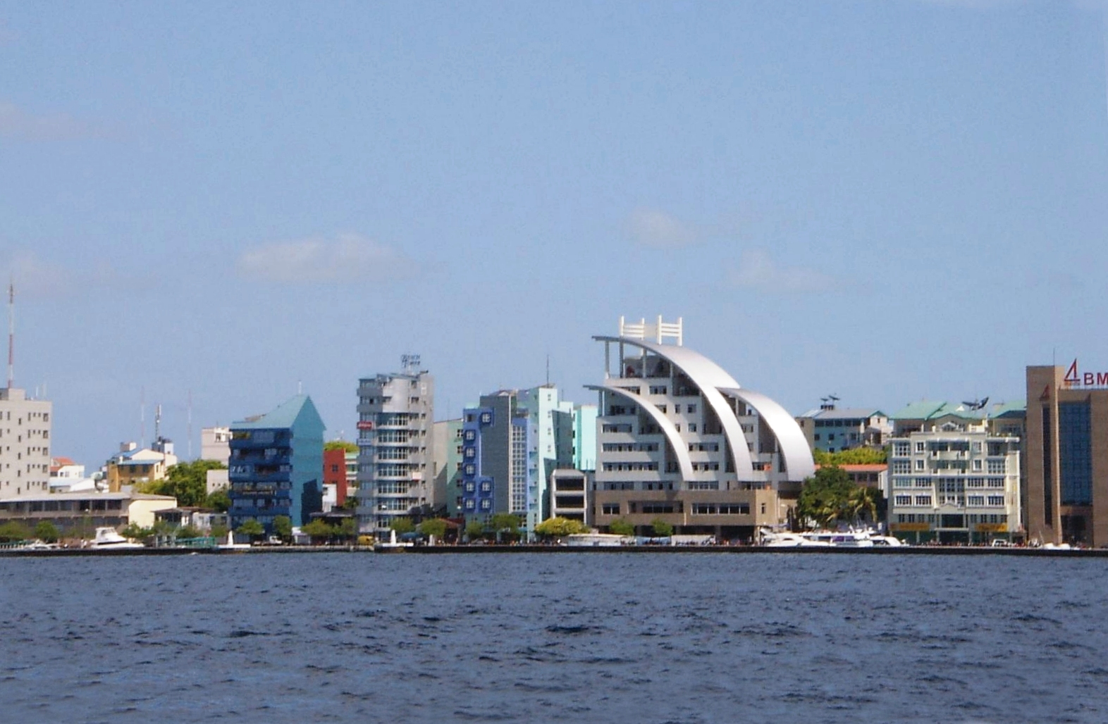 Close up of Malé skyline - taken by me in July 2005 from a boat.